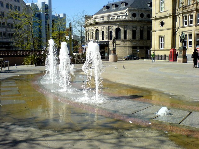 City Square Fountains. 2 million quid these cost the local tax payers, stunning aren't they?